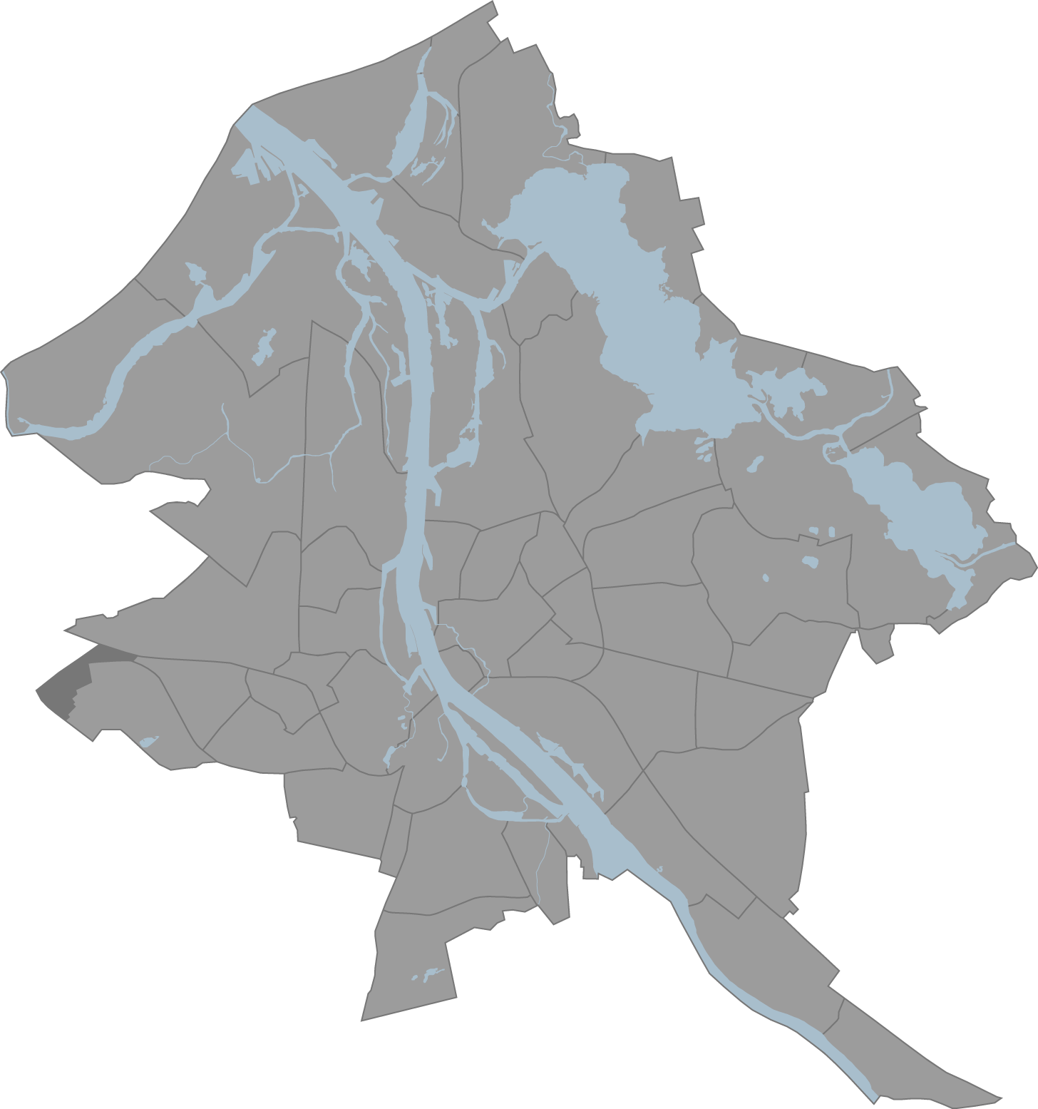 A map of Riga, Latvia with the eponymous commune highlighted